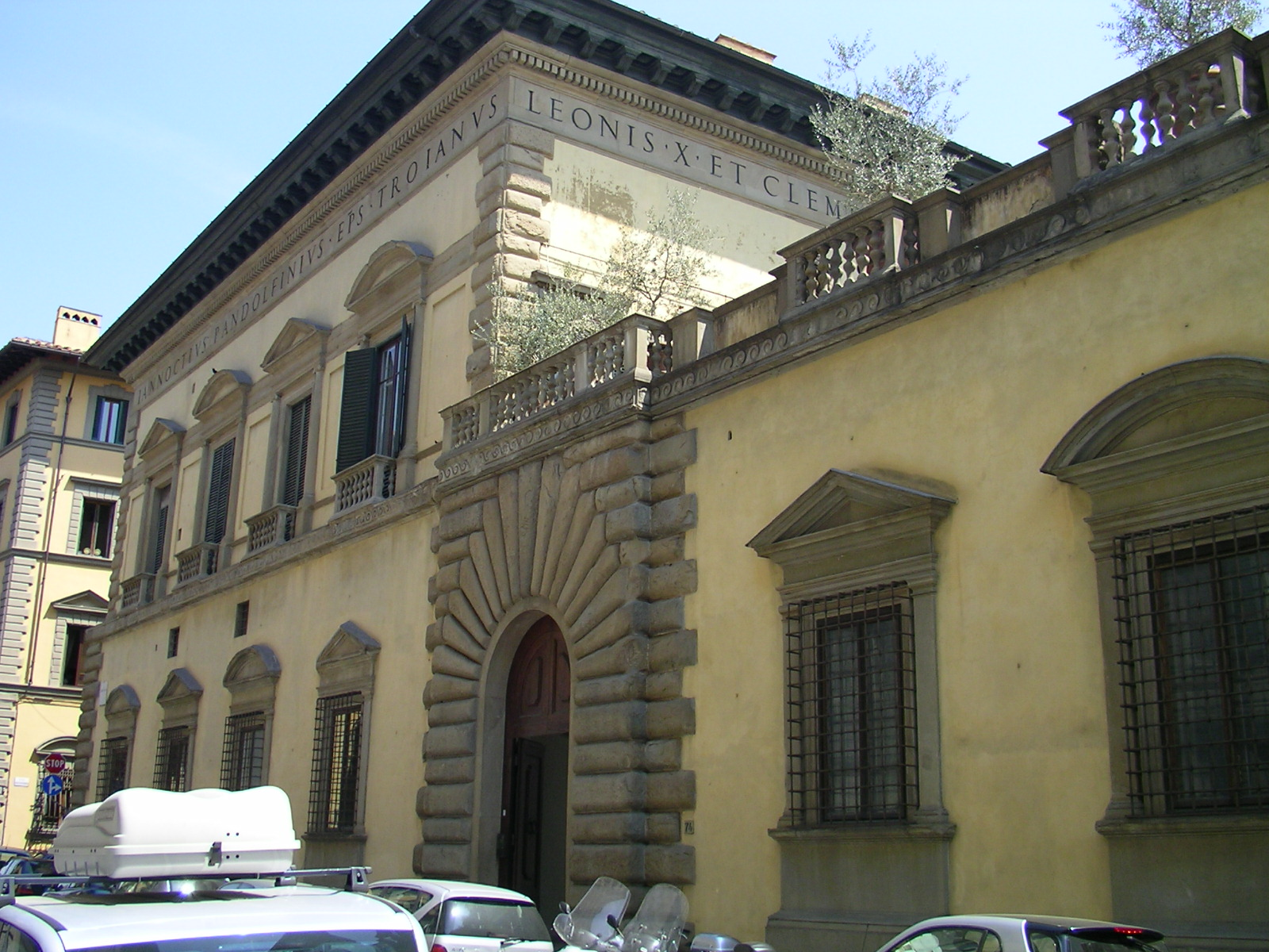 Pandolfini Palace by Raphael (Raffaello Sanzio) in San Gallo Street, front view in Florence, Italy